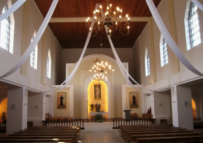 Pallottines church in Voranava, Belarus